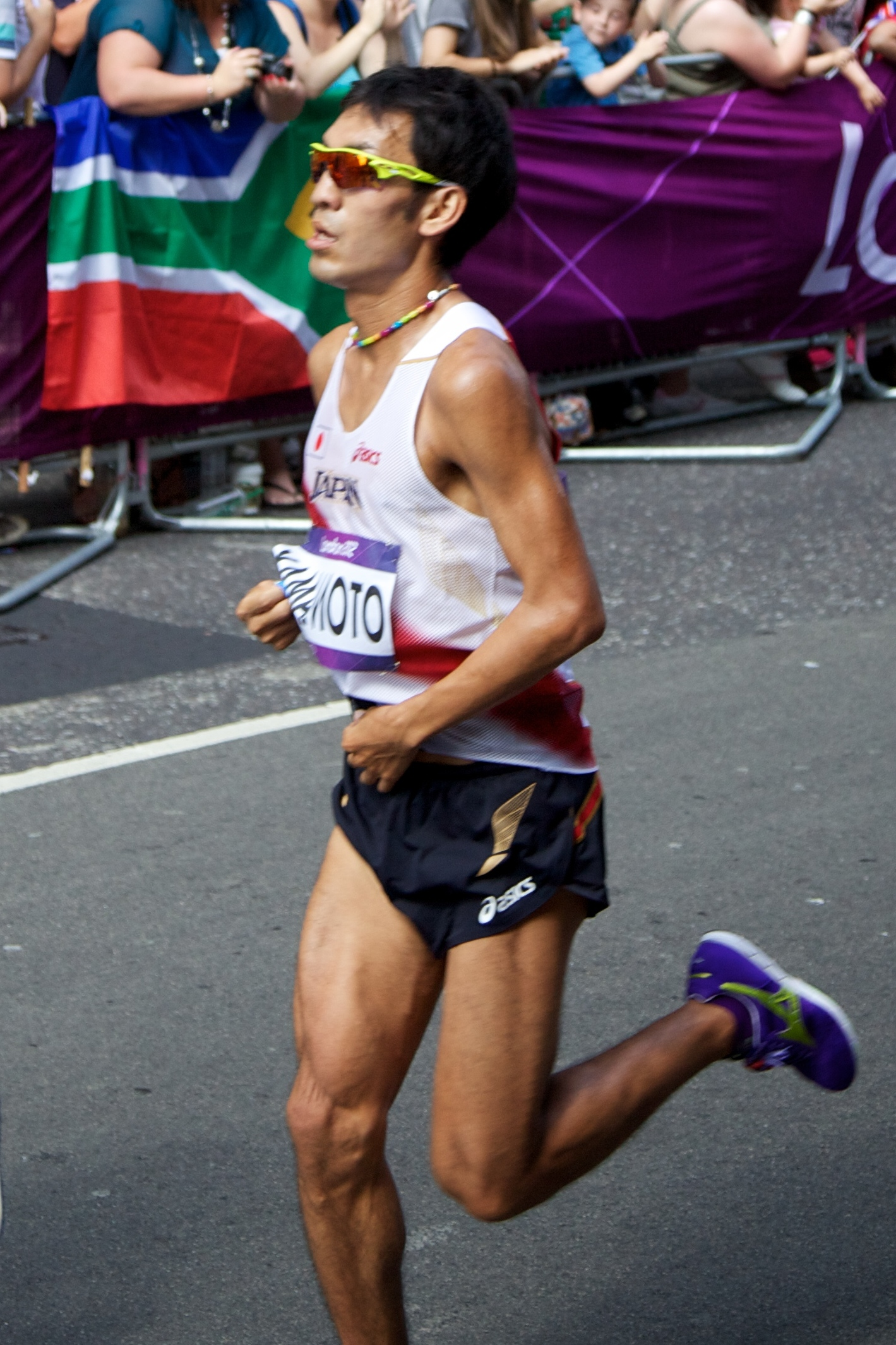 Ryo Yamamoto at the London 2012 Men's Marathon.